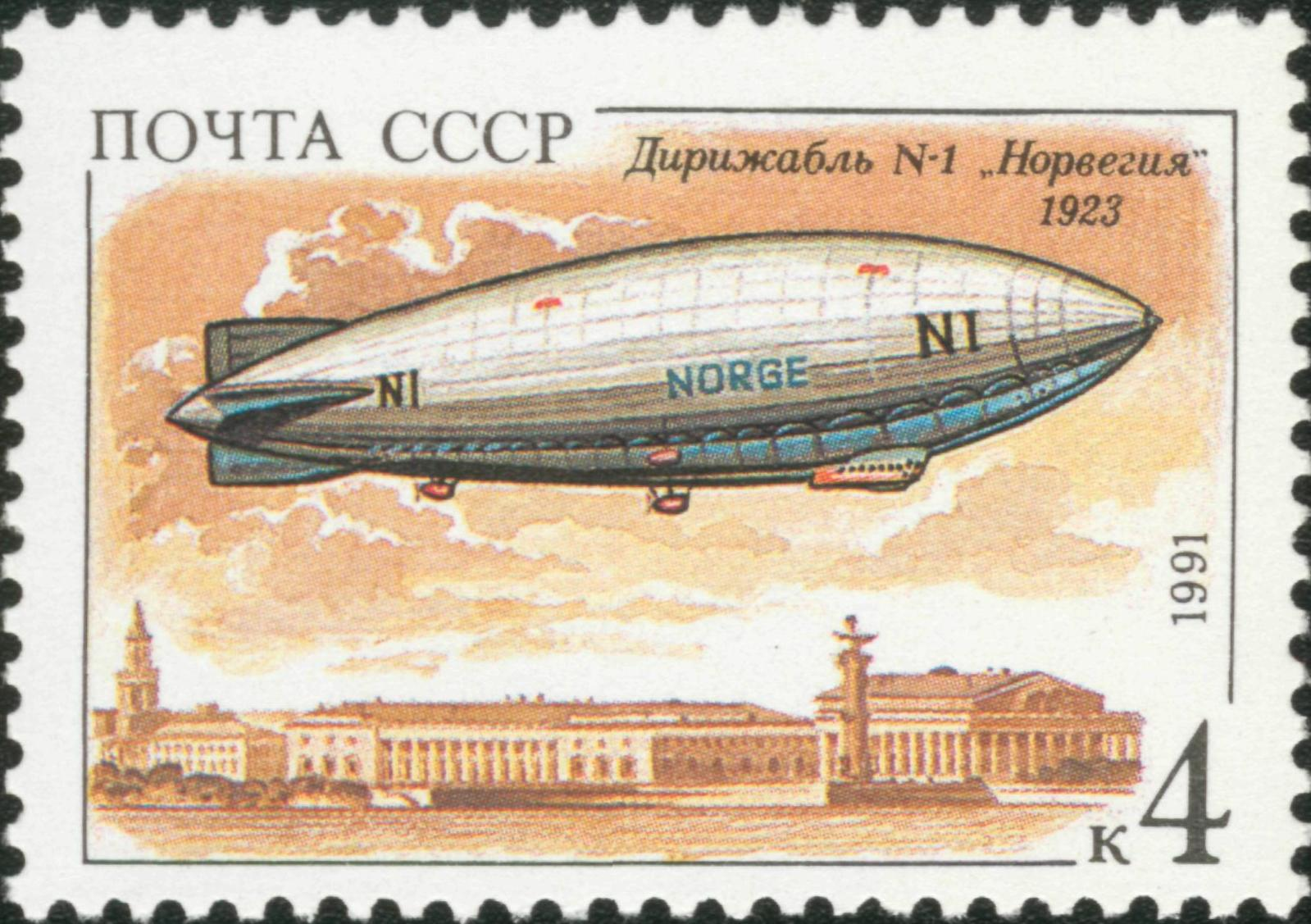 Soviet postage stamp of 4 kopecks from 1991. Airship N-1 "Norge" over Leningrad in 1923.